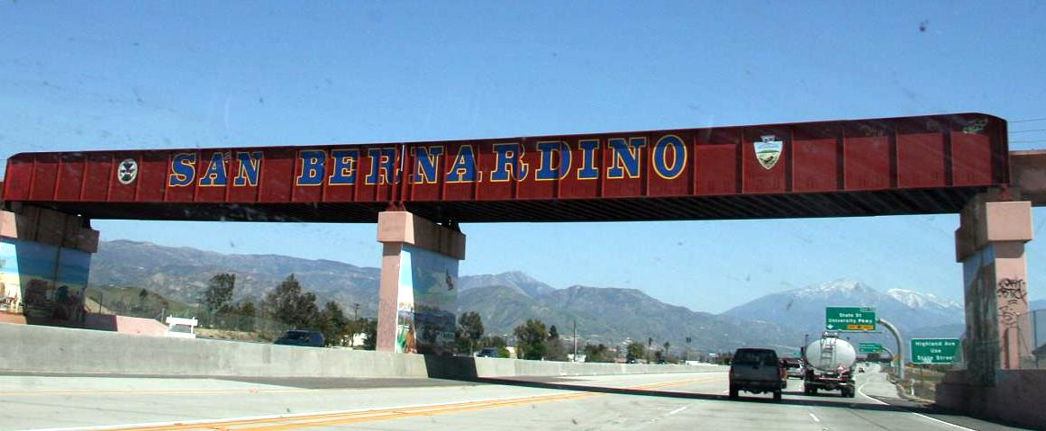 we saw the mountain goats play in san francisco at bimbos. people were yelling out san bernardino, asking him to play that song. I dont know if it was because they were so far away from san bernardino or what but apparently they dont know HOW MUCH IT SUCKS. the song is good though. but really, san bernardino really sucks.